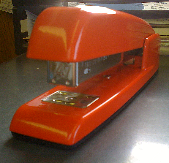 A picture of a Swingline 747 stapler